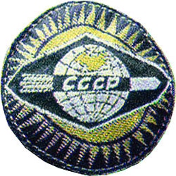 Patch seen in the missions: Soyuz 9, 13, 14, 17, 18 and 29.